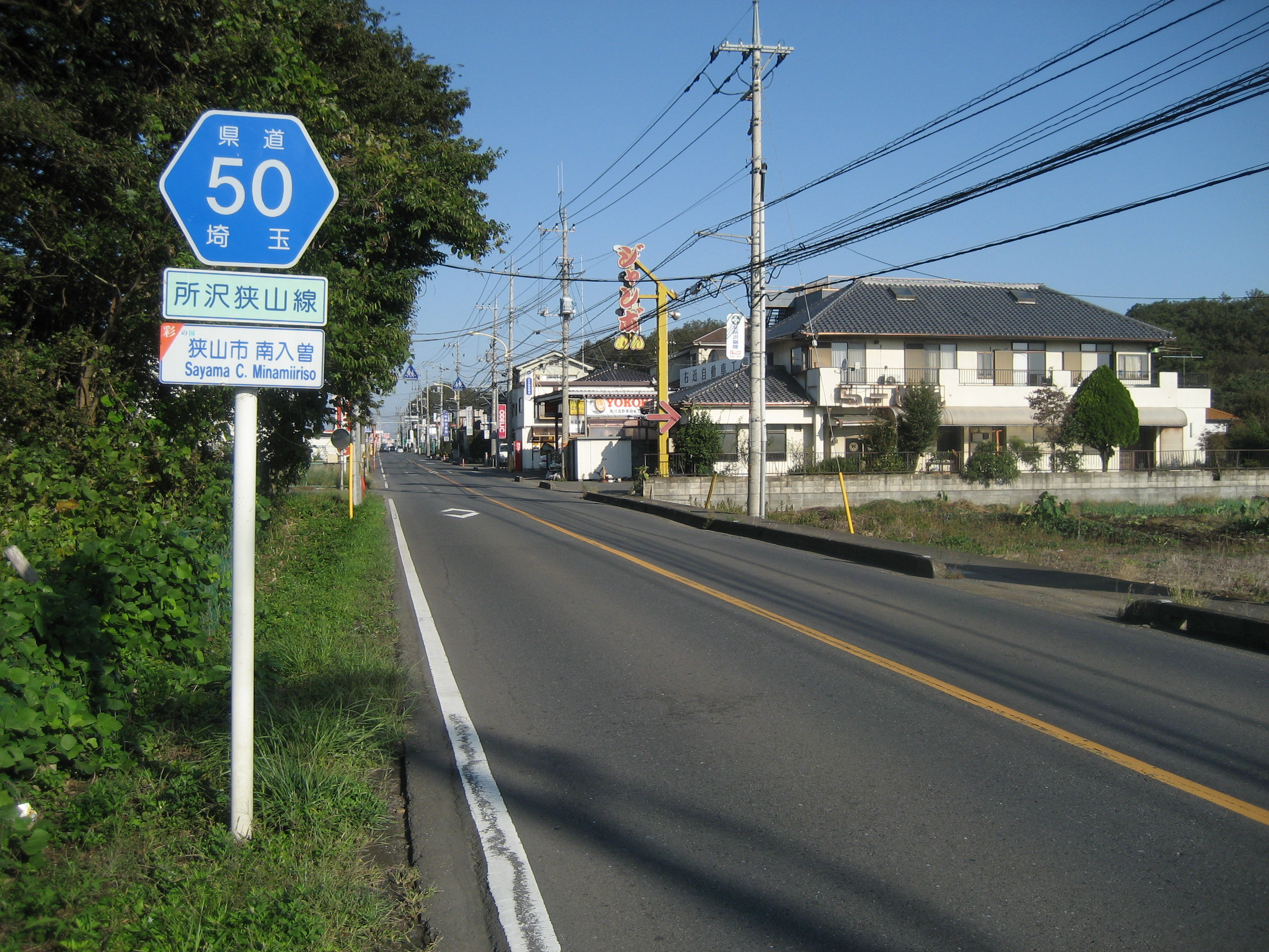 The Saitama Prefectural Road Route 50 in Minamiiriso, Sayama City